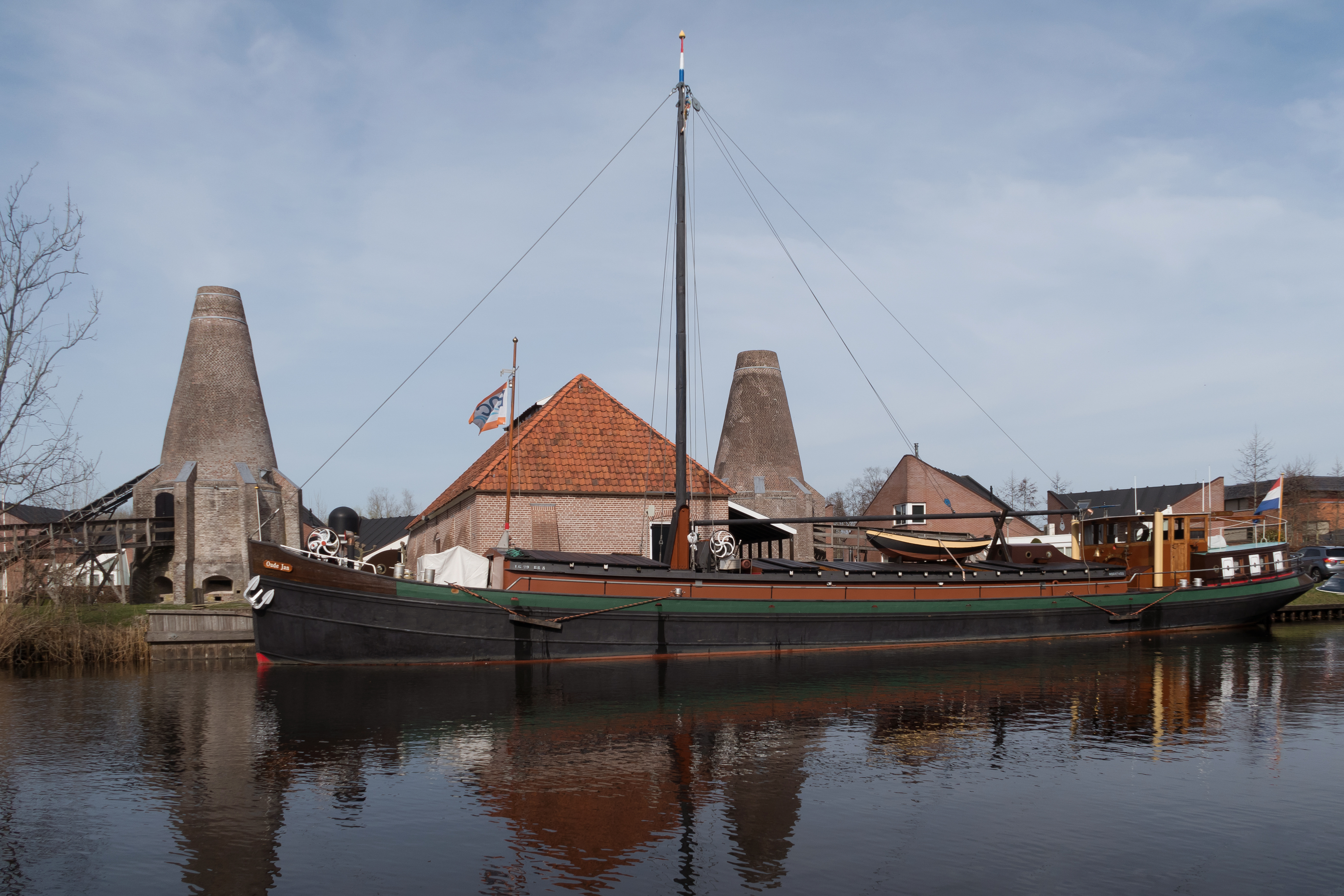 Hasselt, bed and breakfast de Oude Jan with limekiln in the background